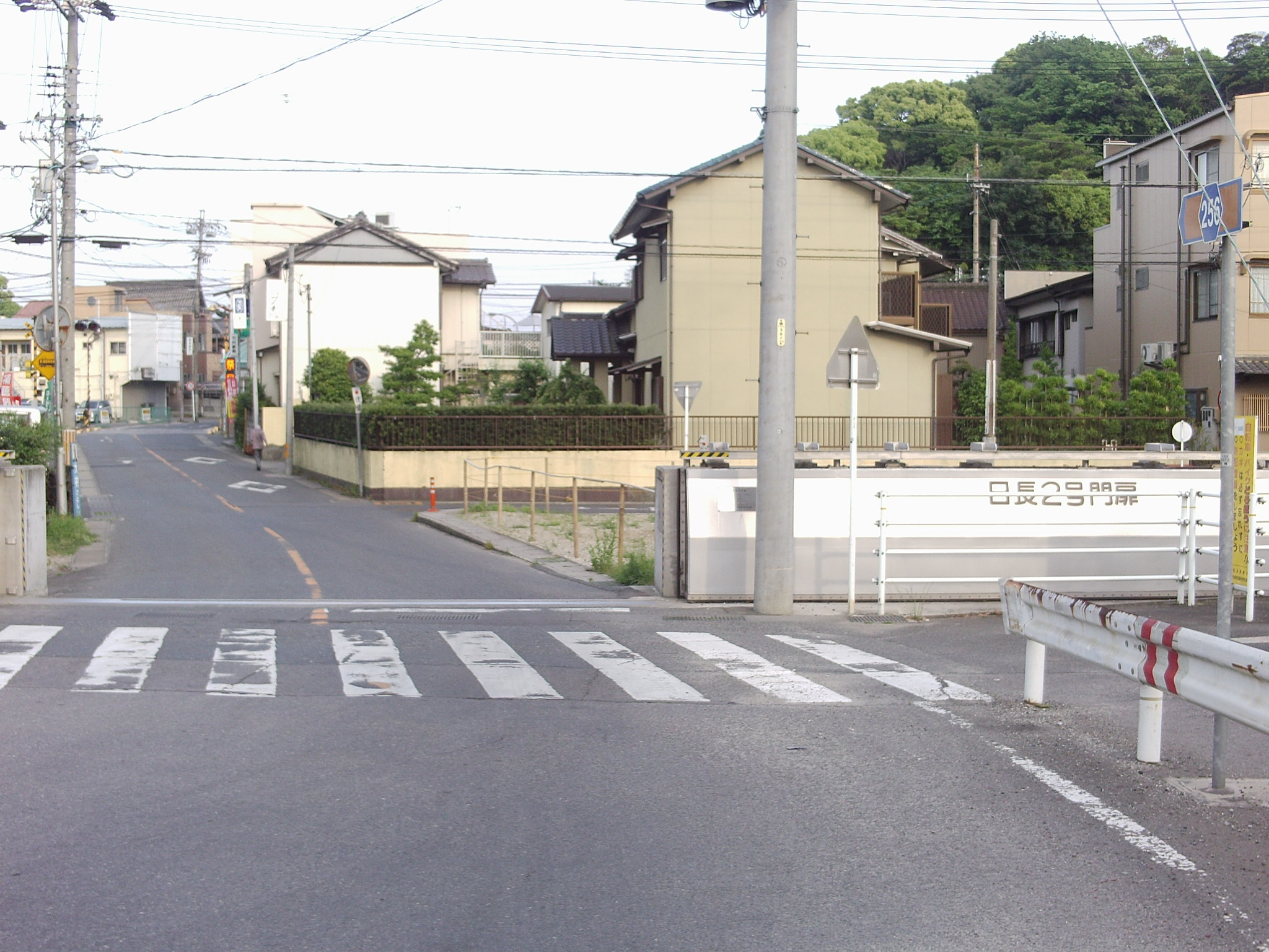 Starting point of Aichi prefectural road No.256 in Shinchi, Chita, Aichi.